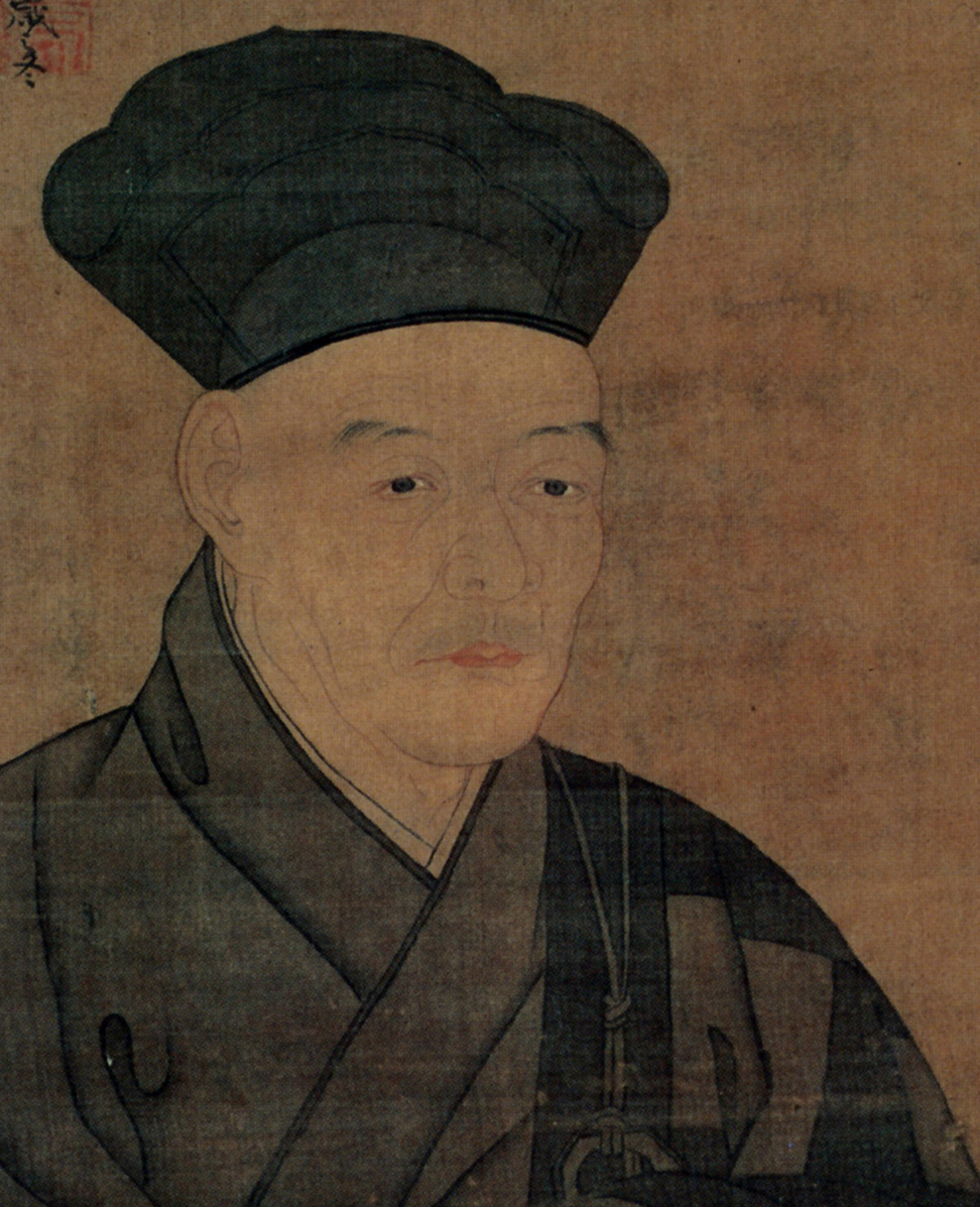 Portrait of Sesshu(copy),important cultural property of Japan,hanging scroll